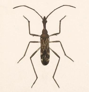 Biologia Centrali-Americana - Myodocha unispinosa Cut-out from original (Biologia Centrali-Americana (8272535750).jpg) shown below